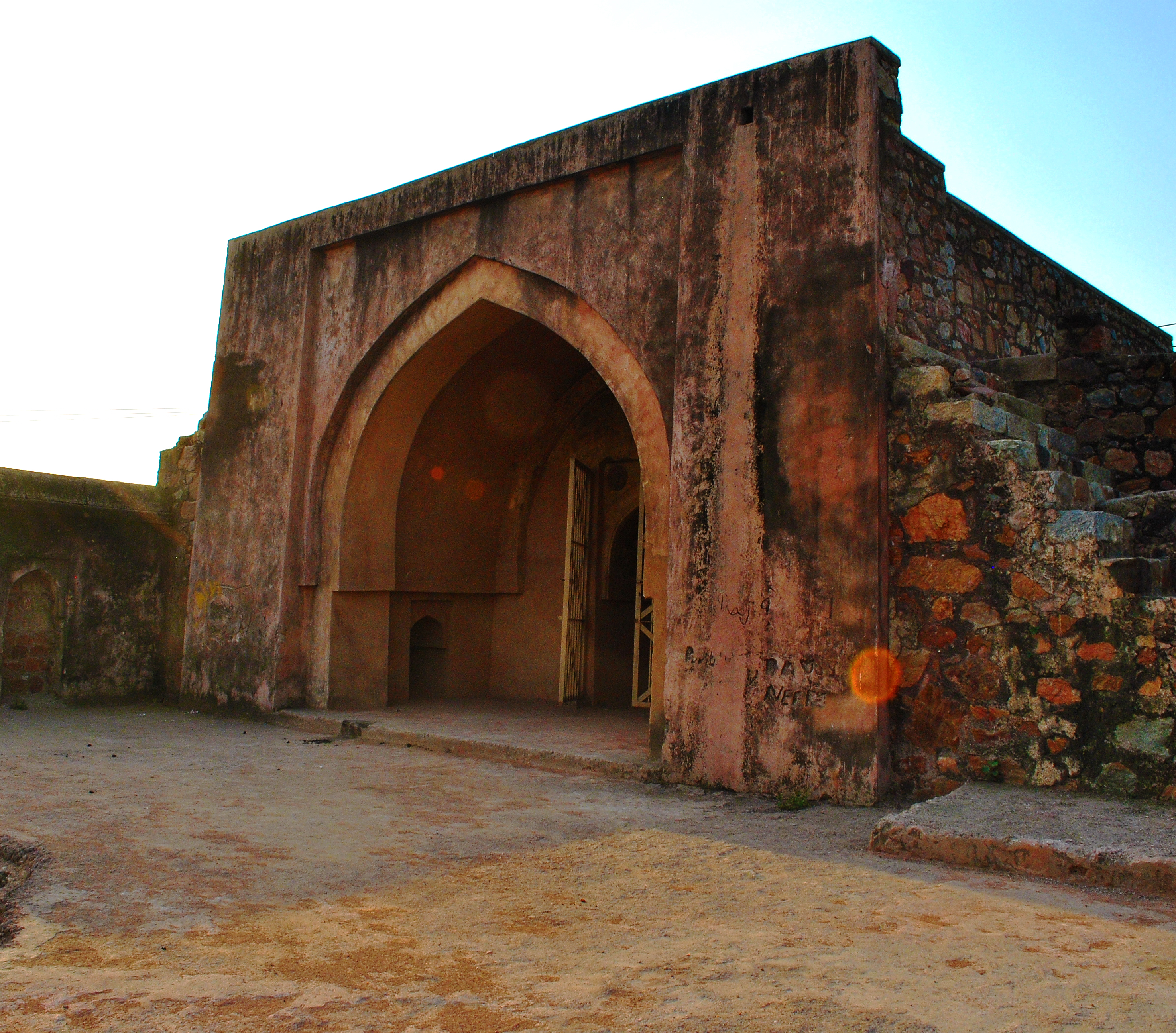 Satpula Was Muhhamad Shah Tughlaq's Coup de grace A weir A moat A defensive wall And engineers Over their Sluice arches To gloat.